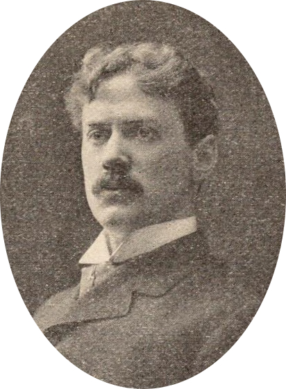 Portrait of New York assemblyman Samuel S. Slater